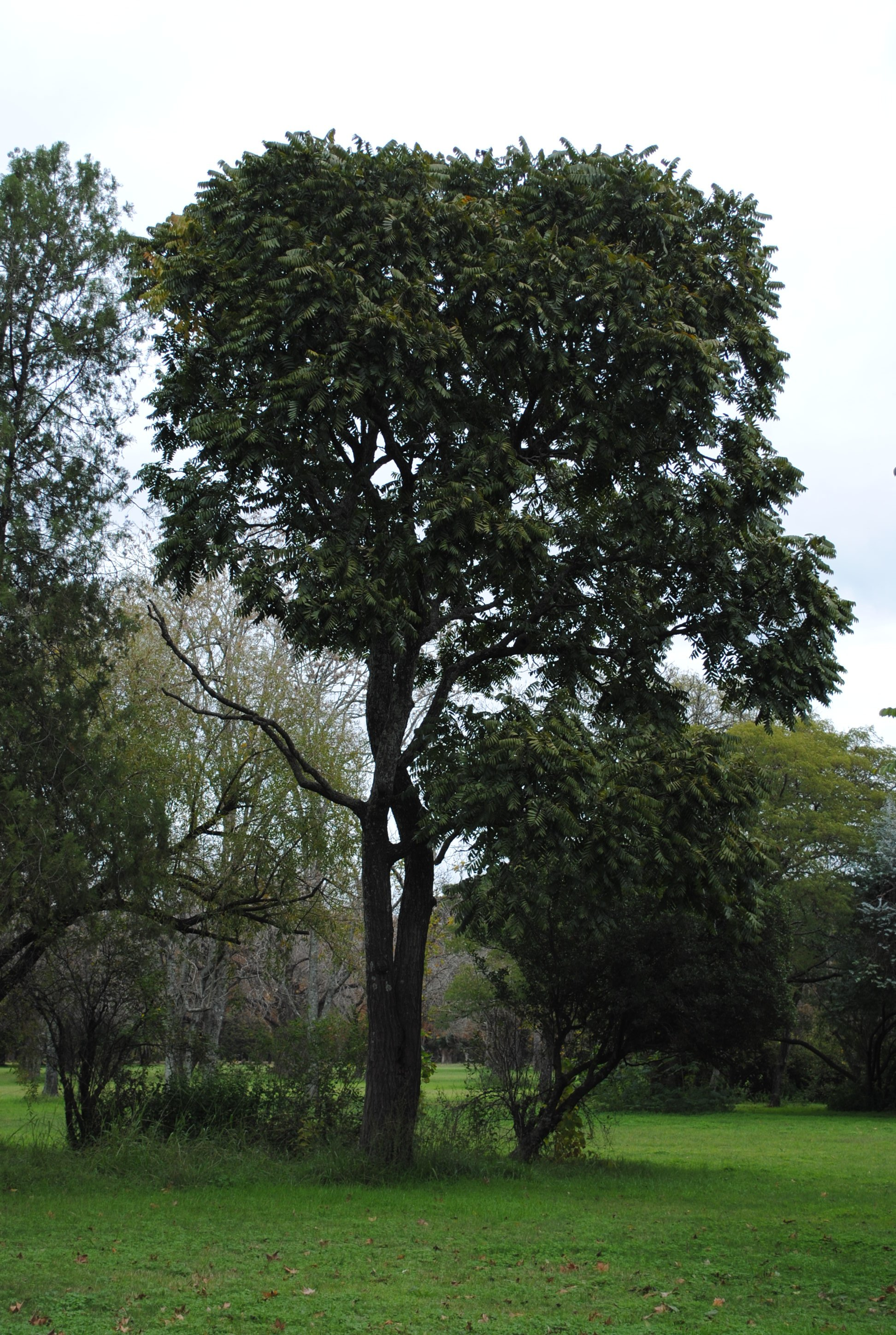 Cedrela fissilis (Cedro misionero) tree at Villarino Park, Santa Fe province, Argentina